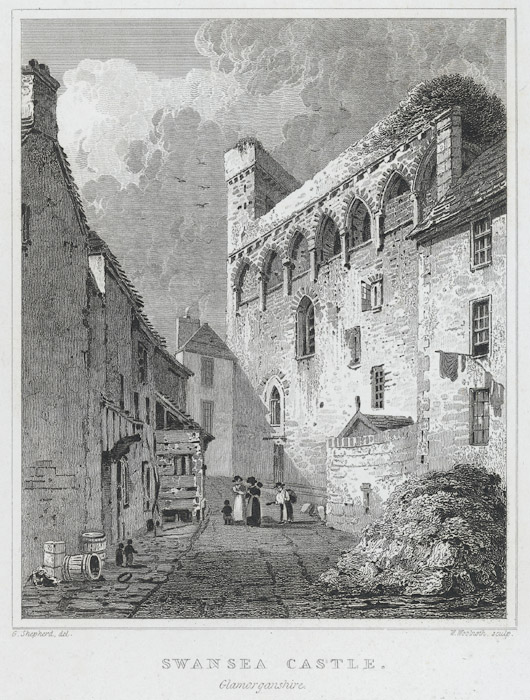 A street scene outside Swansea castle with mothers and children in the centre.